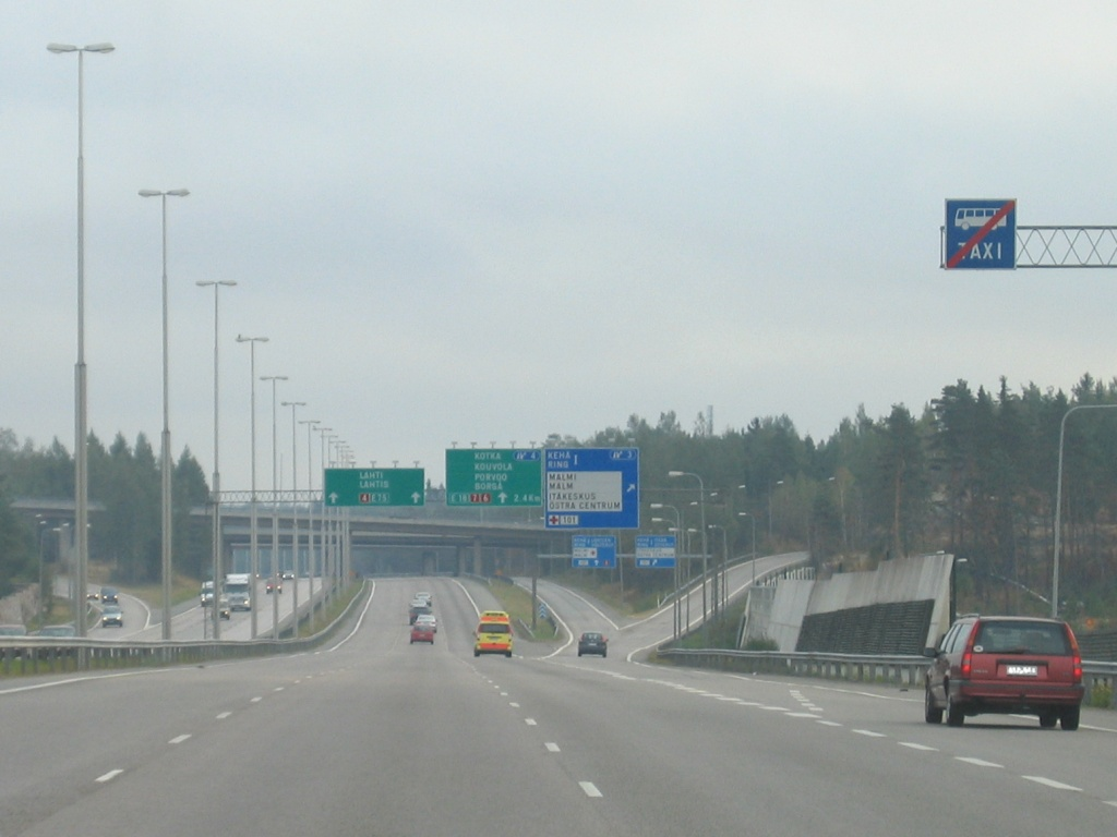 Highway 4/7 (E75; Lahdenväylä motorway) in Helsinki, Finland